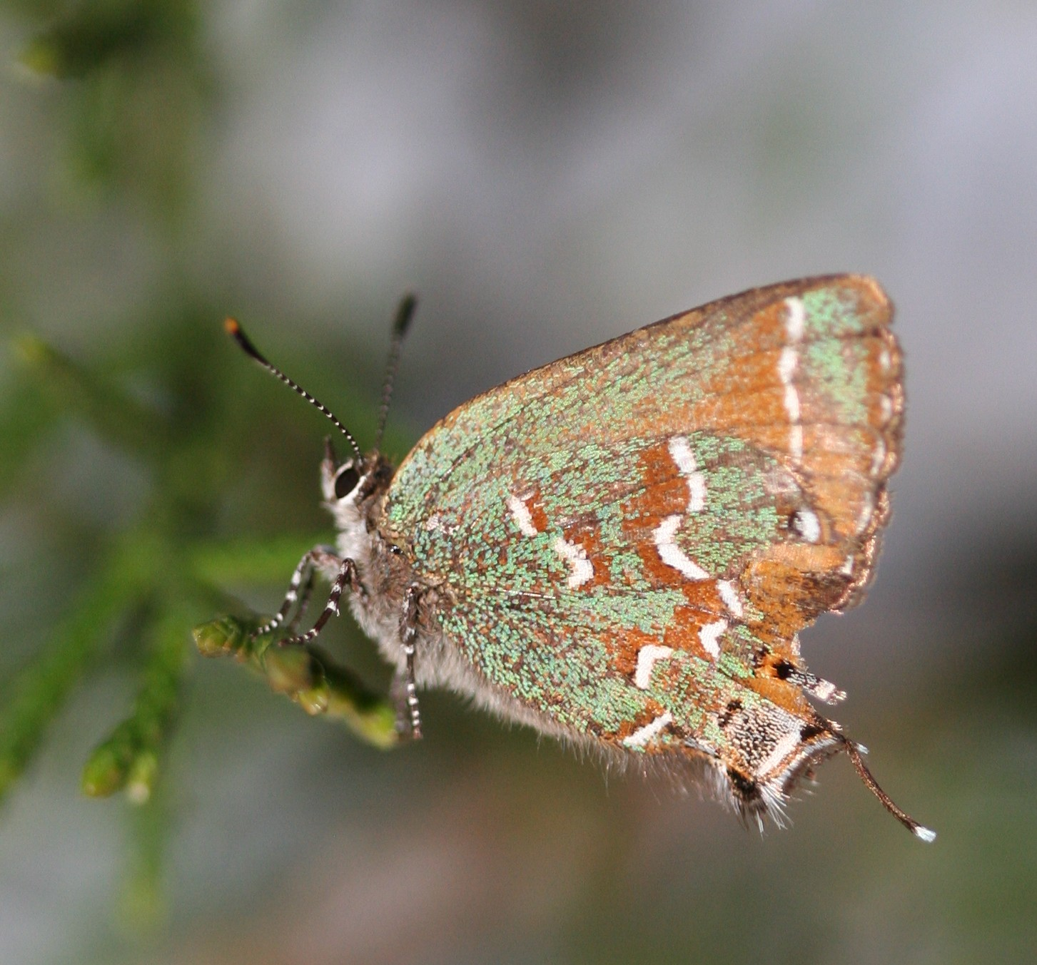 "Olive" Juniper Hairstreak (Callophrys gryneus gryneus)